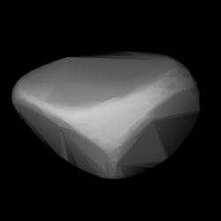 3D convex shape model of 2483 Guinevere, computed using light curve inversion techniques. J. Hanuš, J. Ďurech, M. Brož, B. D. Warner (June 2011). "A study of asteroid pole-latitude distribution based on an extended set of shape models derived by the lightcurve inversion method". Astronomy and Astrophysics 530: A134. ISSN 0004-6361. arXiv